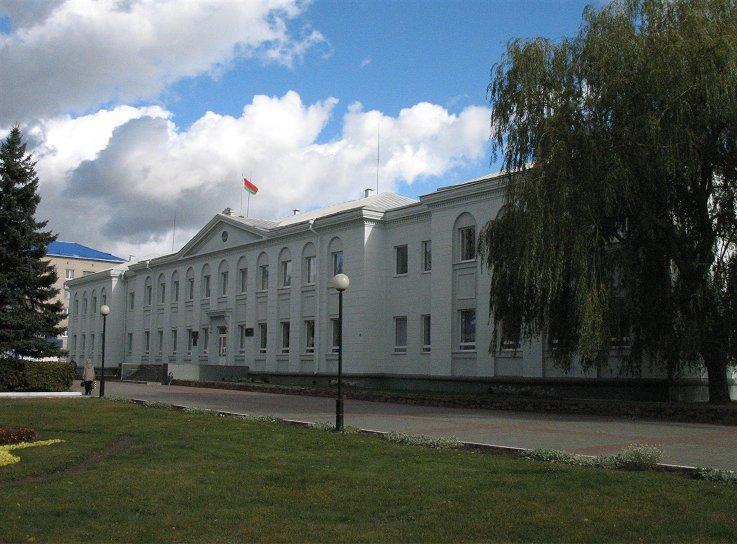 Administration building of Asipovichy (Асiповiчы; Осиповичи) in Mogilev region, Belarus.